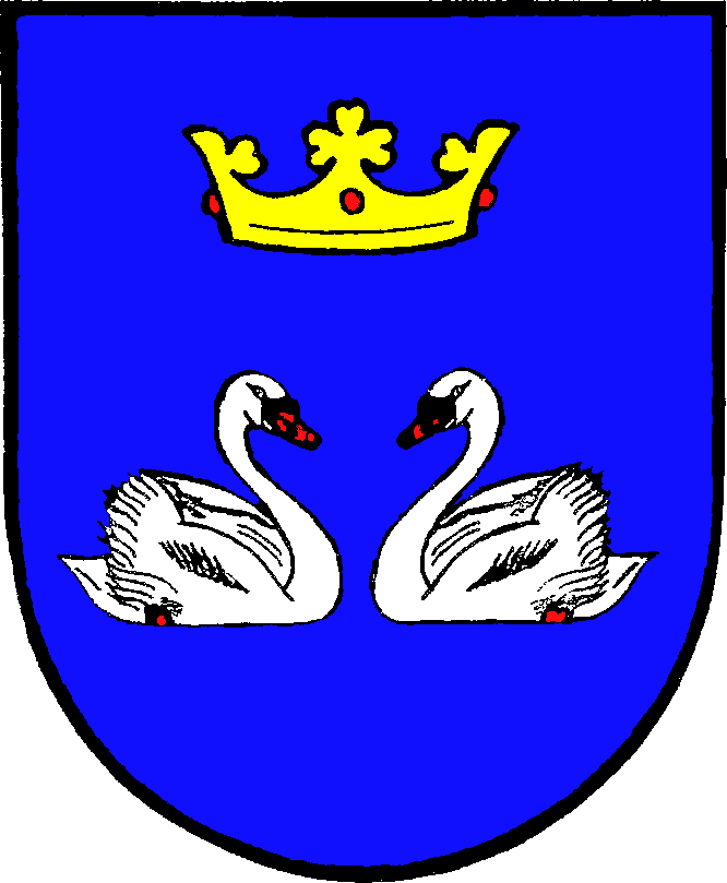 Coat of arms of the Amt (county) Schlei-Ostsee and the former Amt (county) Schwansen in Schleswig-Holstein, Germany.